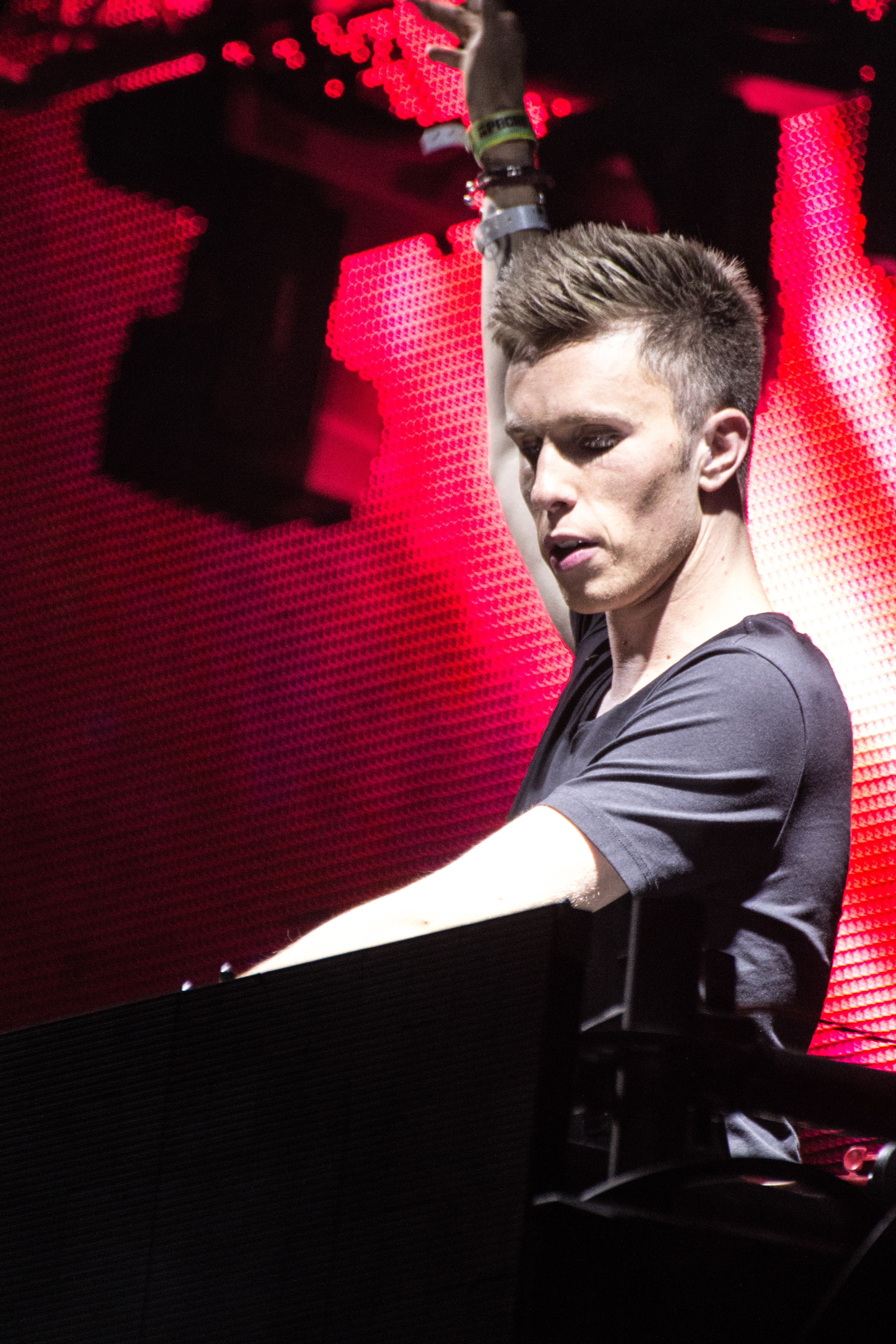 Nicky Romero live at Tomorrowland 2013